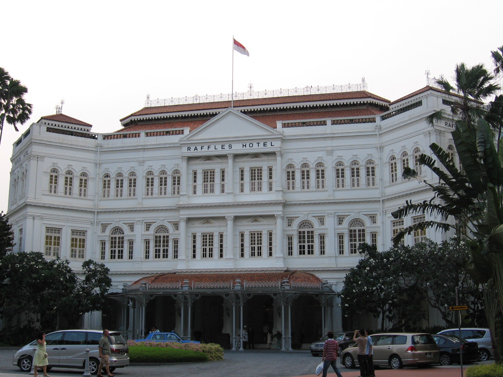 Raffles Hotel. Taken by User:Sengkang of ENglish.Wikipedia in Aug 2006.